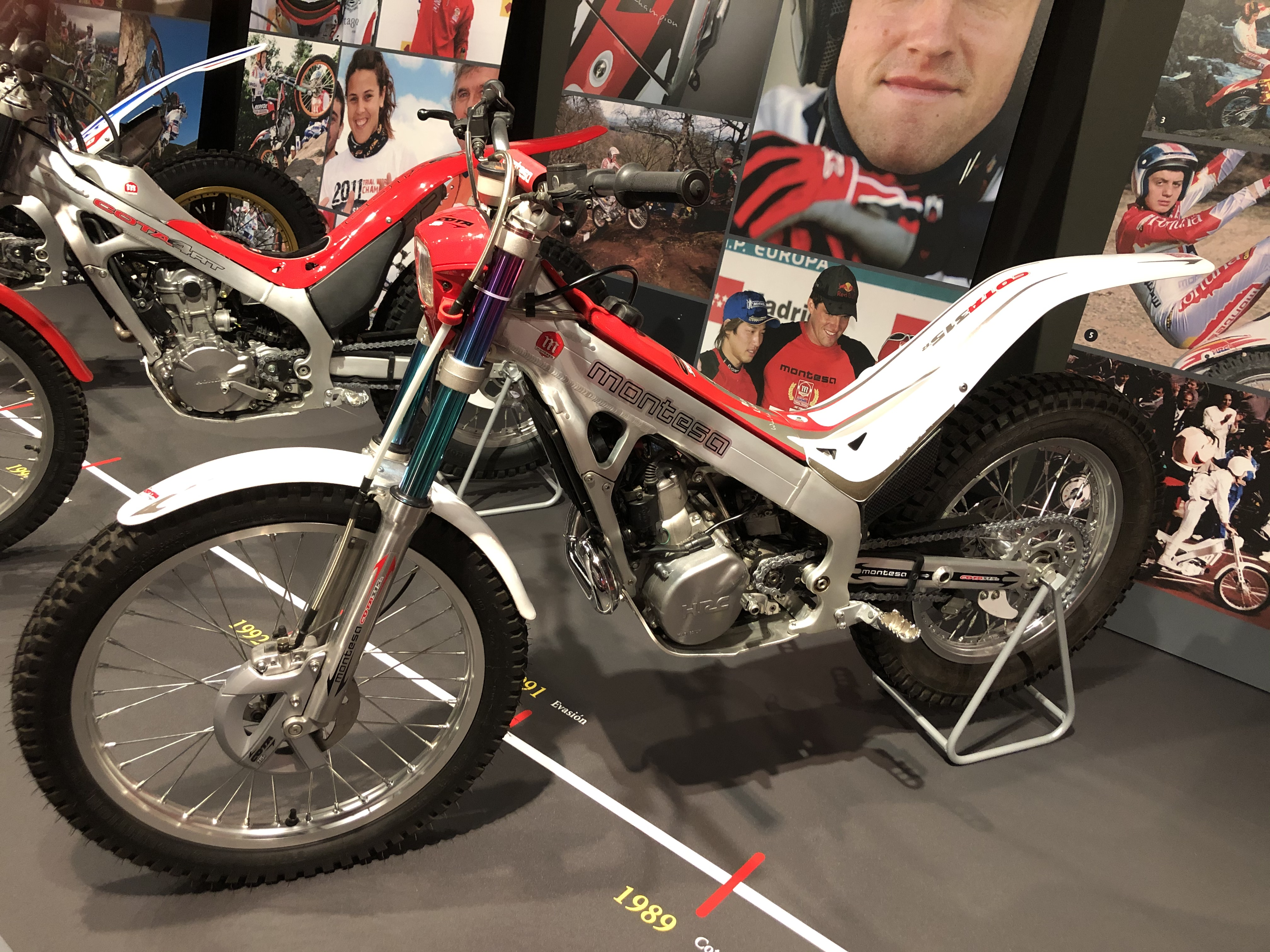 Montesa Cota 315 R 2000 249cc